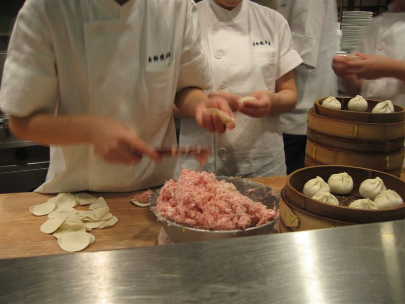 Making Xiao Long Bao at Nanxiang Mantou Dian (Nanxiang Steamed Buns Restaurant) in Roppongi Hills, Tokyo from Shanghai.